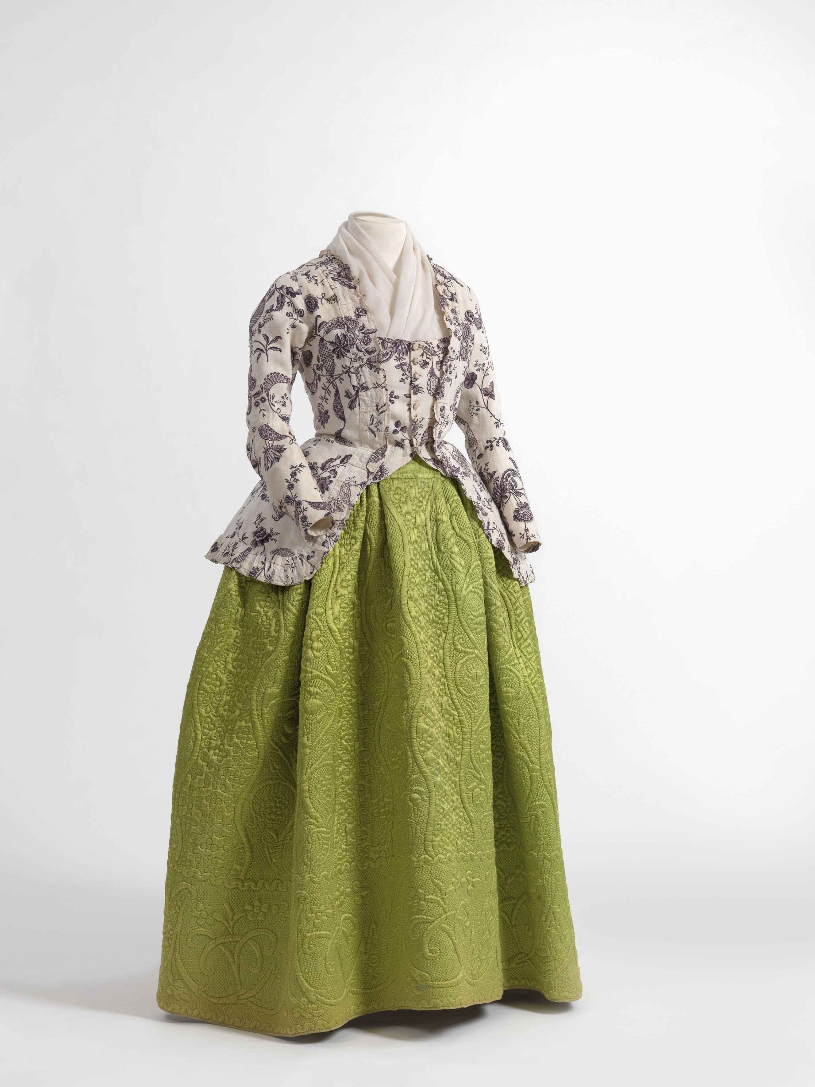 Anonymous, Caraco jacket in printed cotton, England,1770-1790, skirt in quilted silk satin, 1750-1790. Jacoba de Jonge Collection in MoMu - Fashion Museum Province of Antwerp, Photo by Hugo Maertens, Bruges. MoMu Collection T12/15/B8 and T13/348/B91. Go to [1] and type in the MoMu collection number to find more information about the object